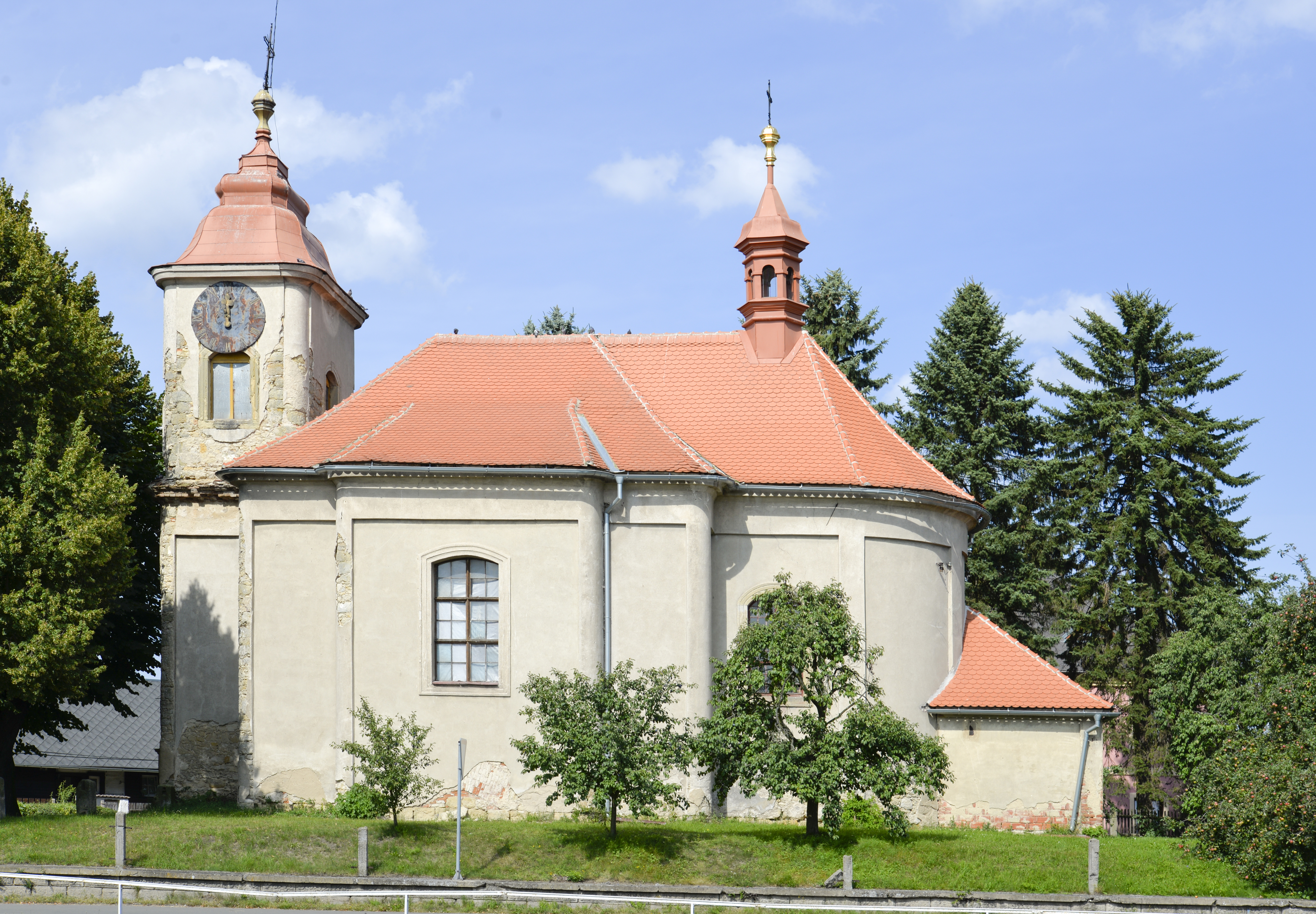 John of Nepomuk church in Bukovno, village green